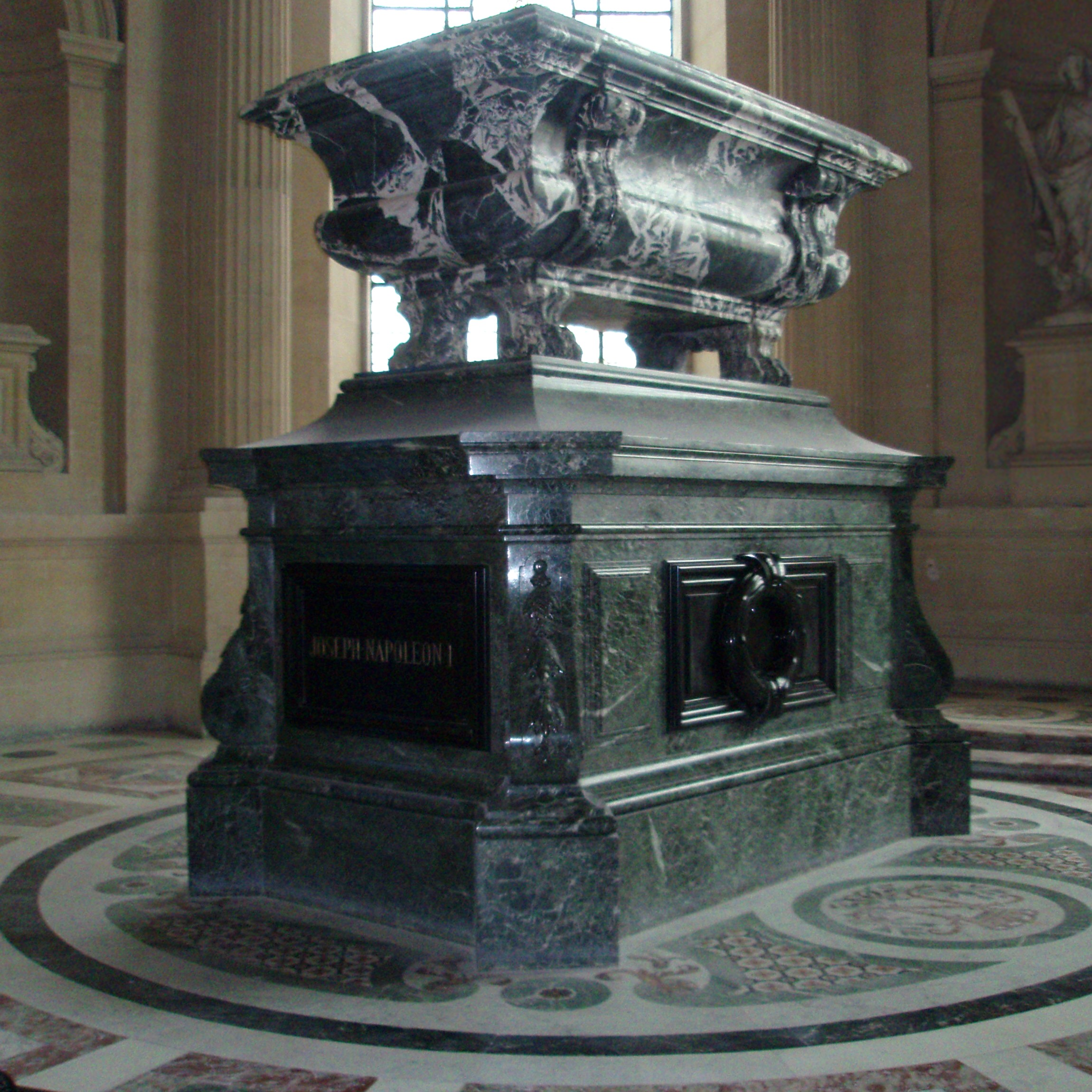 Tomb of Joseph Bonaparte at Les Invalides